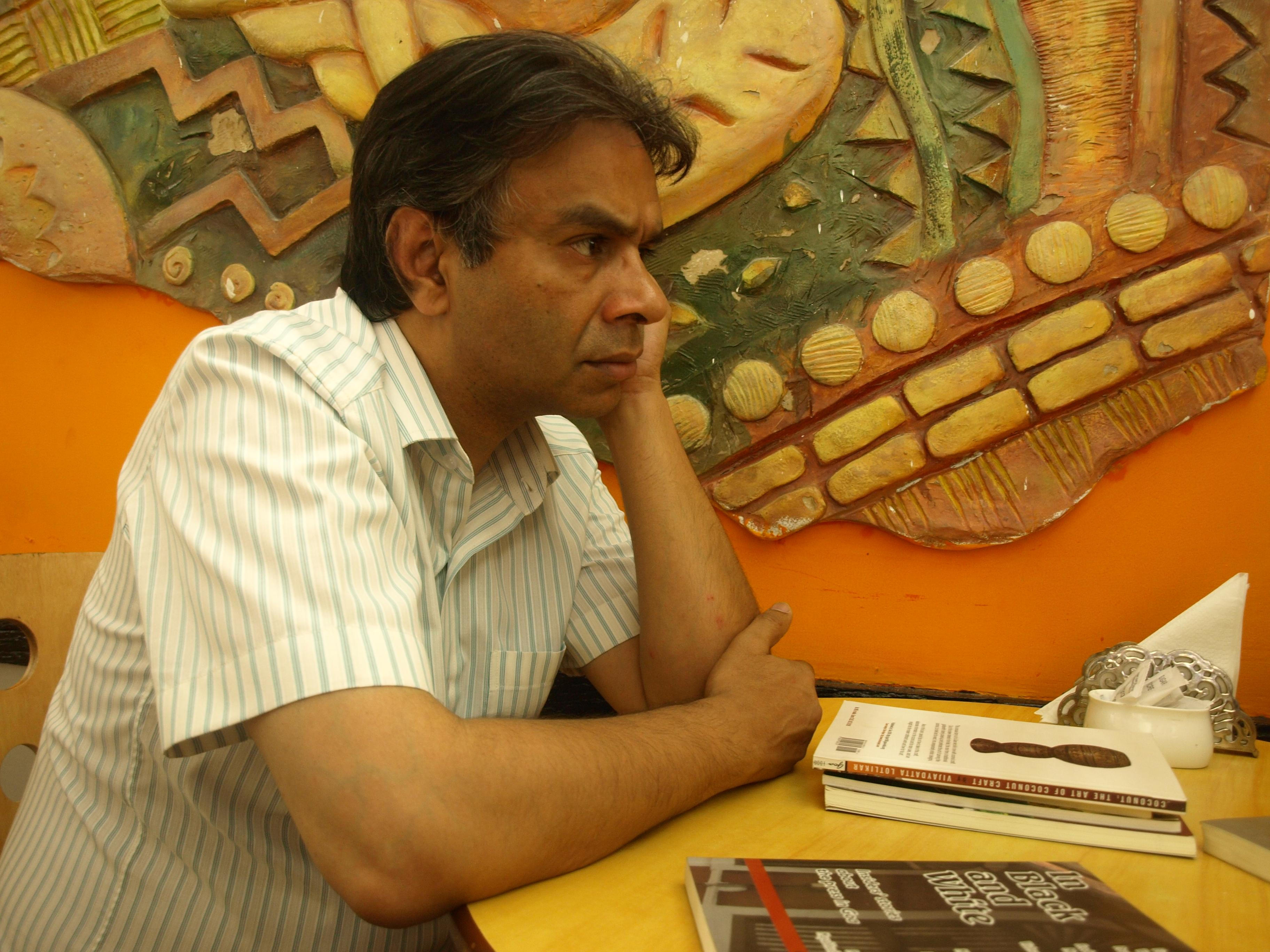 Photographed at Panjim, Goa, India by Frederick Noronha.